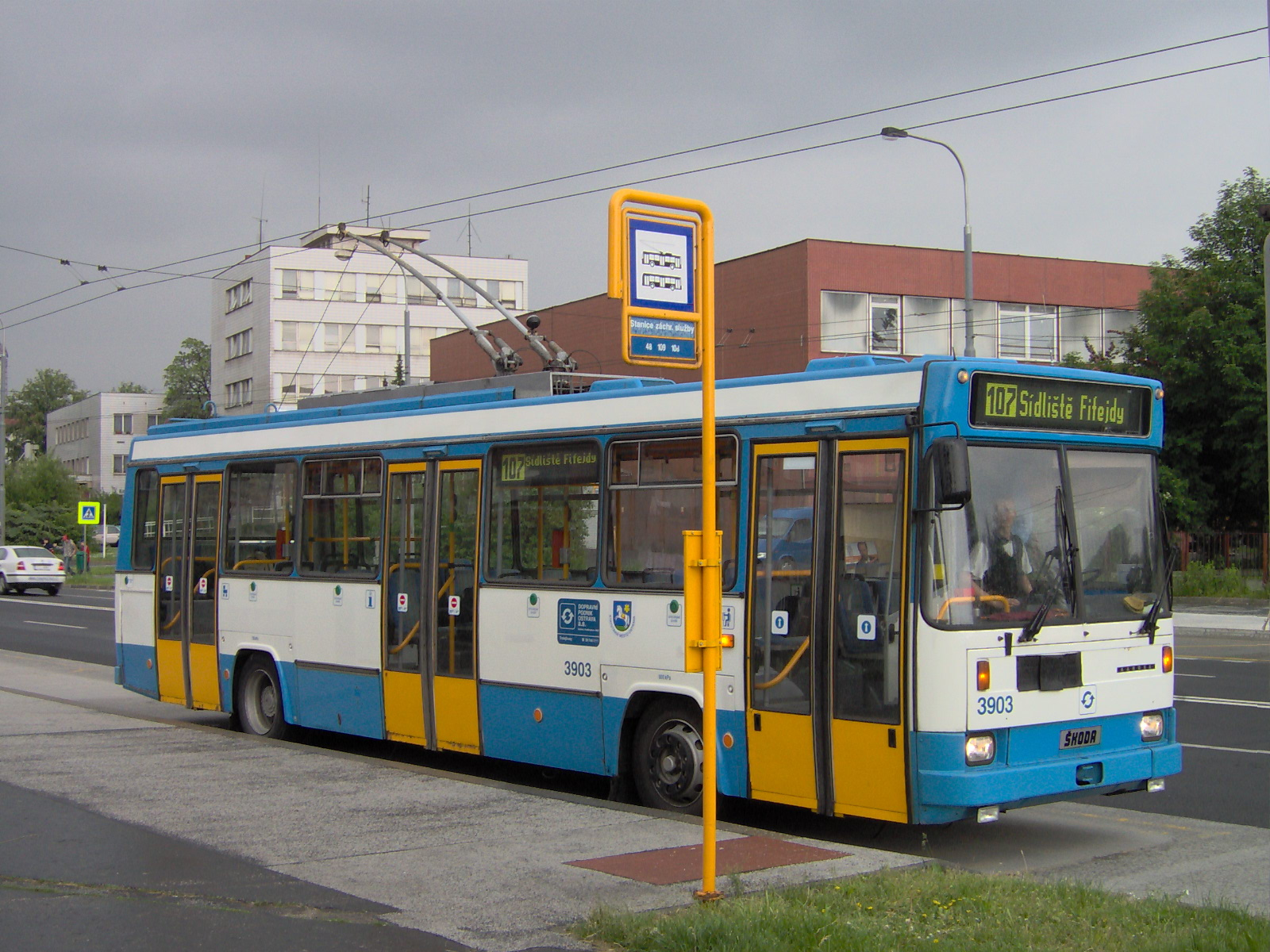 Škoda 17Tr trolleybus in Ostrava, Czech Republic